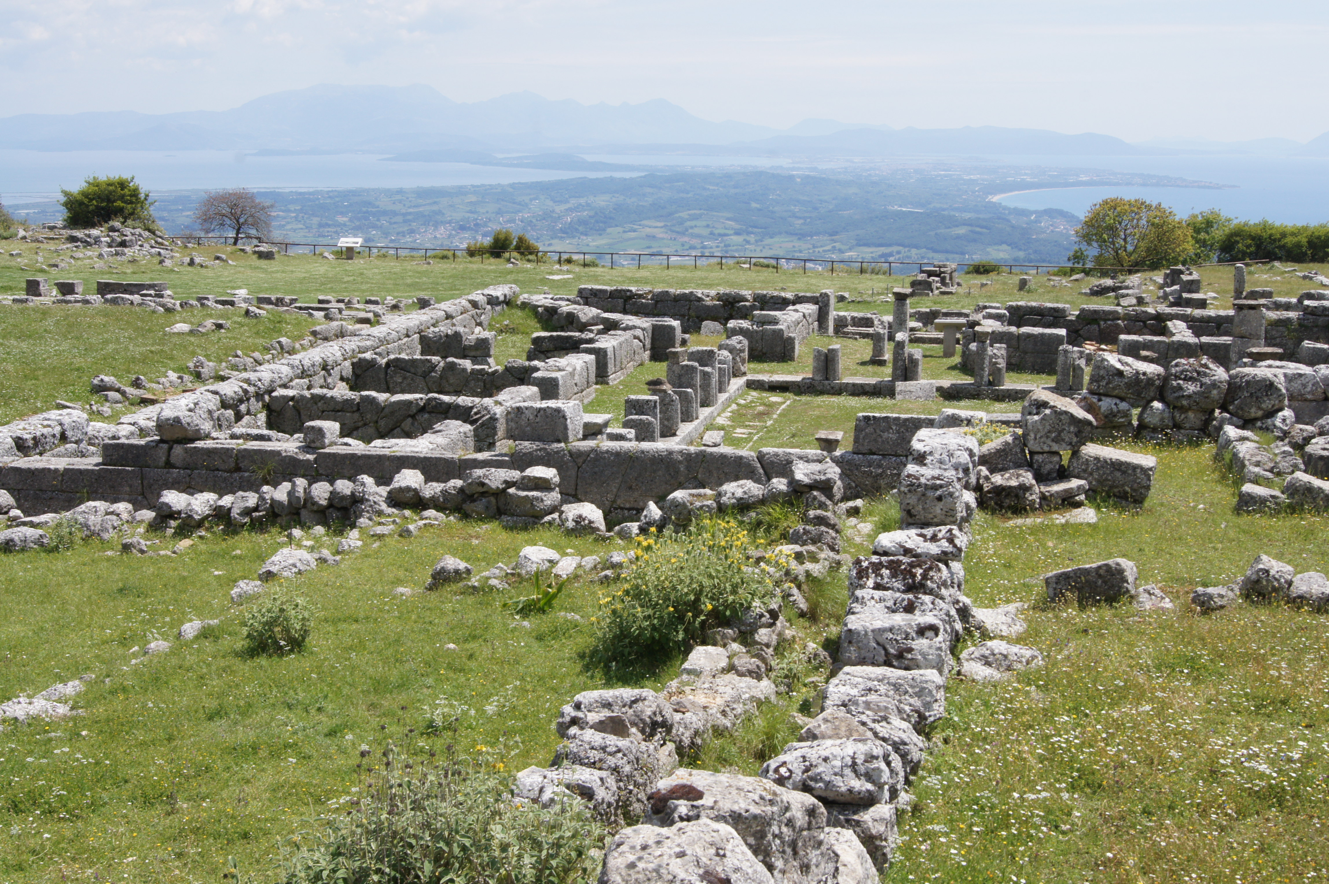 Kassope